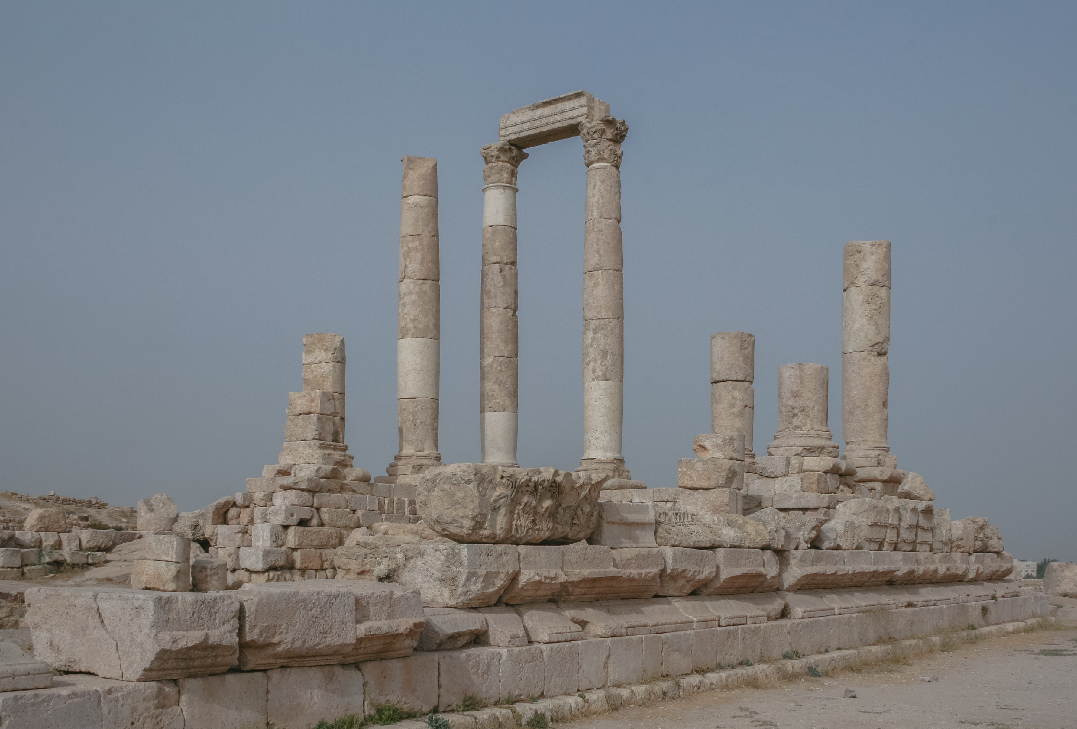 Temple of Hercules, Amman, Jordan